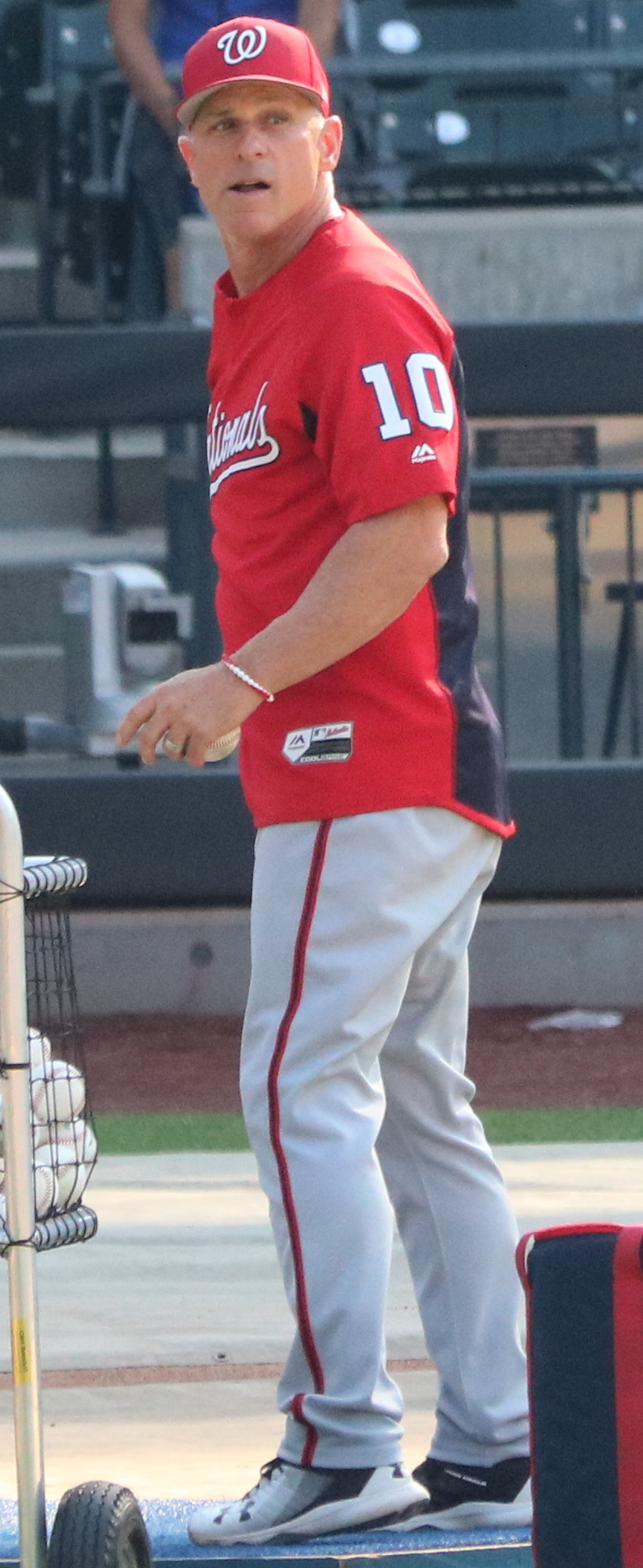 Chip Hale on July 13, 2018